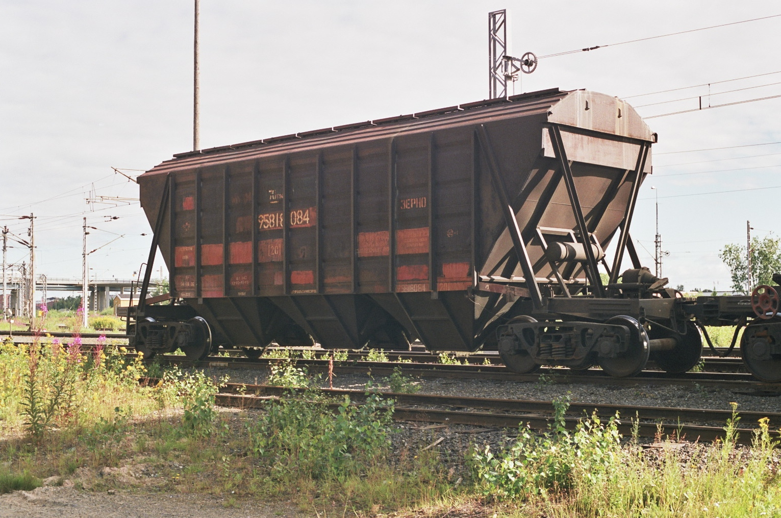 A railway wagon (covered hopper?) in the VR freight yard in Oulu, Finland. It is obviously Russian-made.